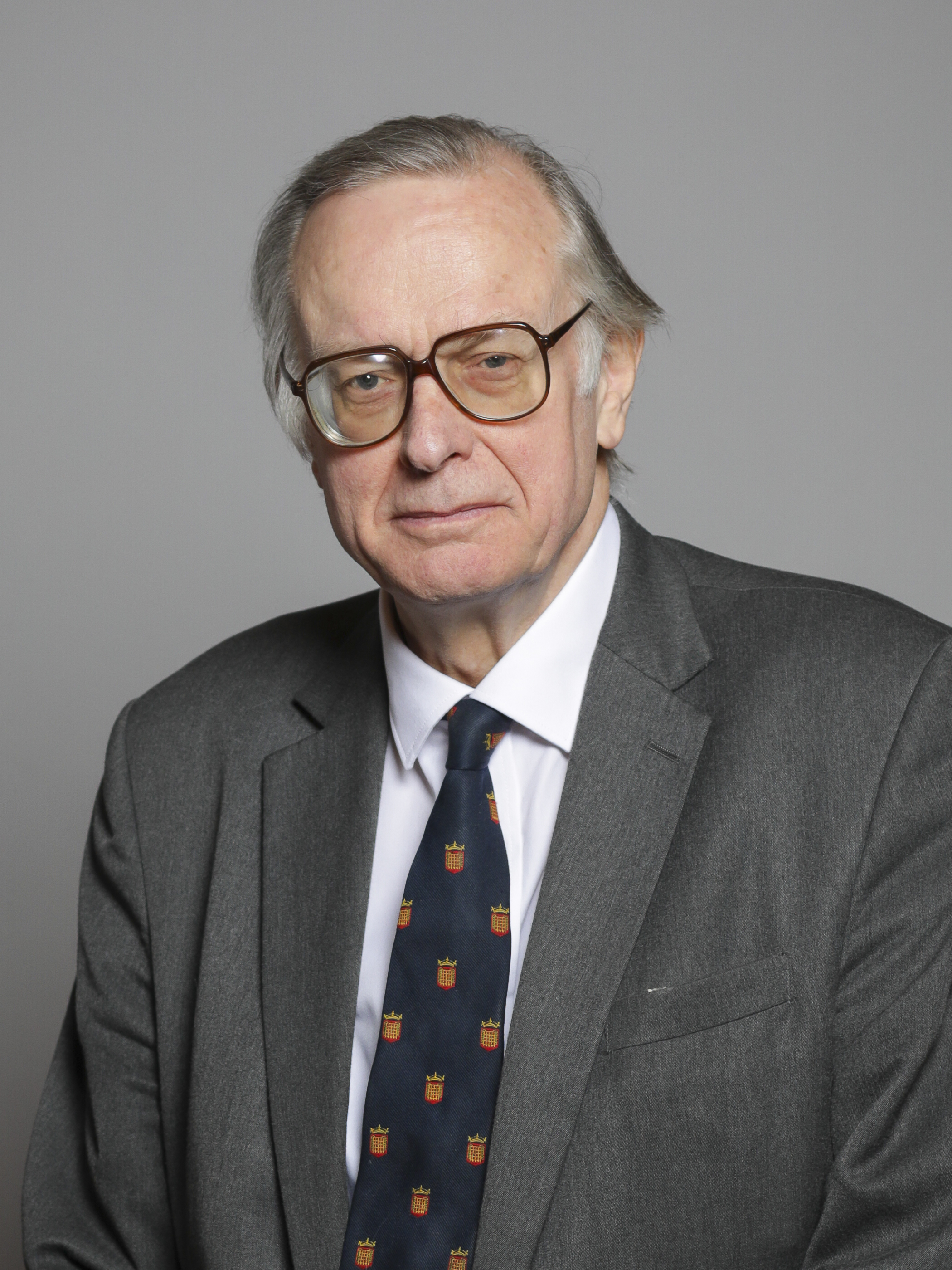 Official portrait of Viscount Craigavon Full sized portrait of Viscount Craigavon